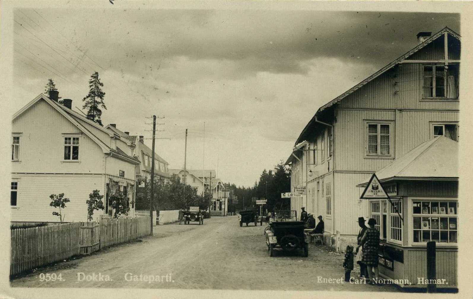 Back of card